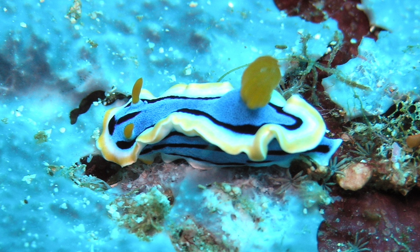 Nudibranch. Chromodoris annae. Also known as Anna's magnificent slug. Taken at Manado, North Sulawesi, indonesia.